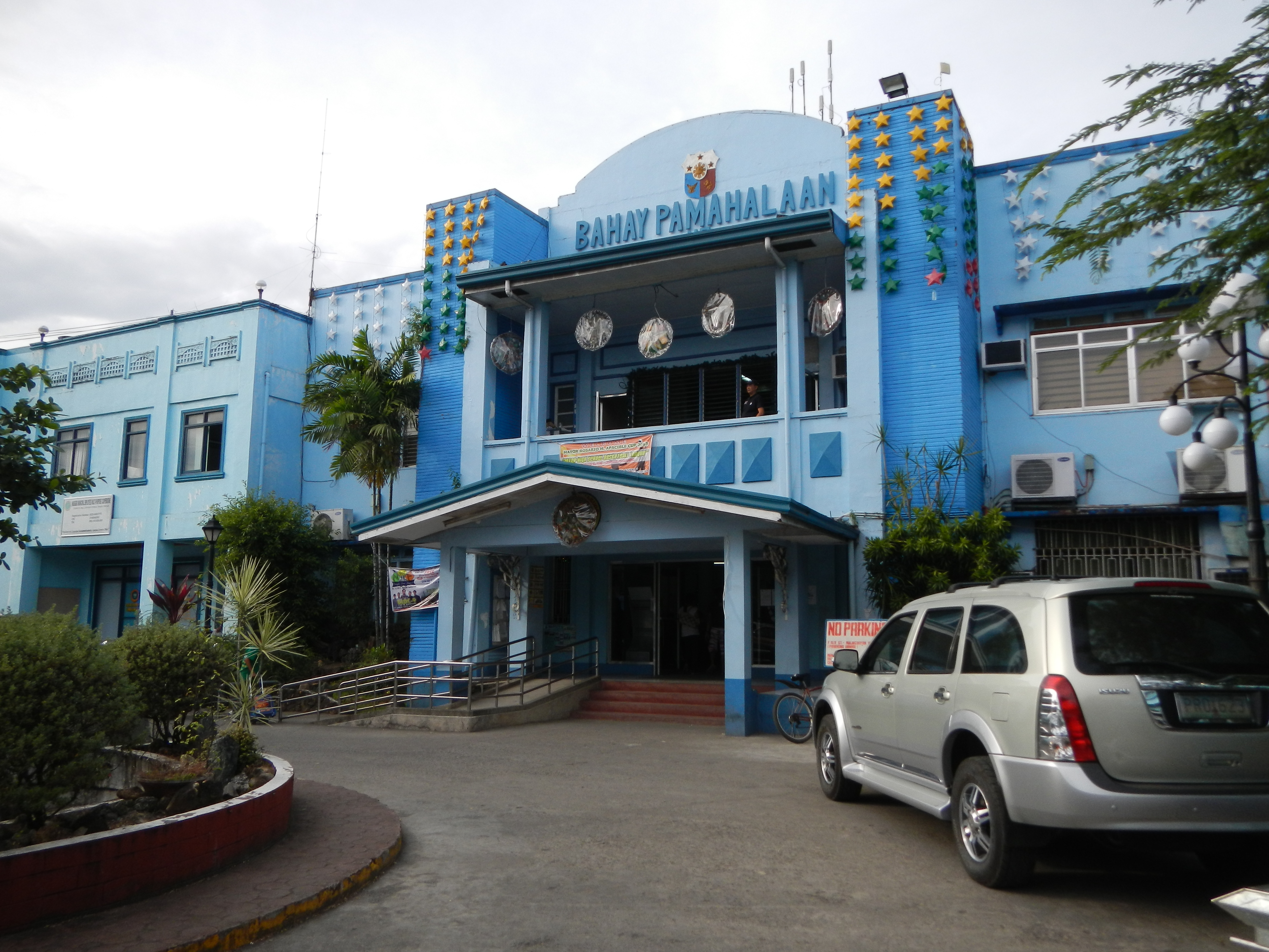 Nasugbu, Batangas [1] Municipal Hall Bayan Ko Mahal Ko Complex Compound - Town Proper, Fire Station beside the Church, Police Station